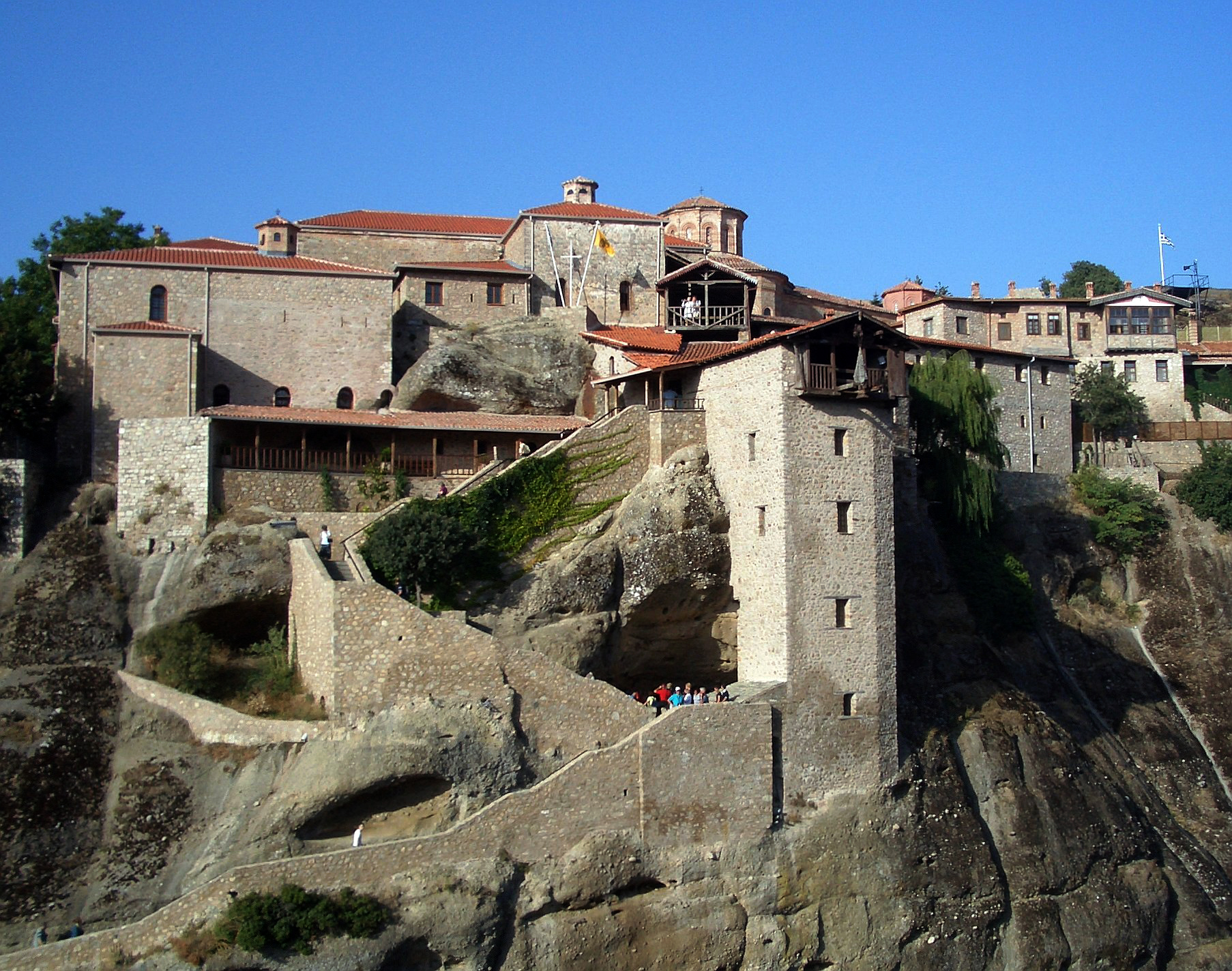 Monastery of Great Meteoron : the Katholikon (main church) is consecrated in honour of the Transfiguration of Jesus.